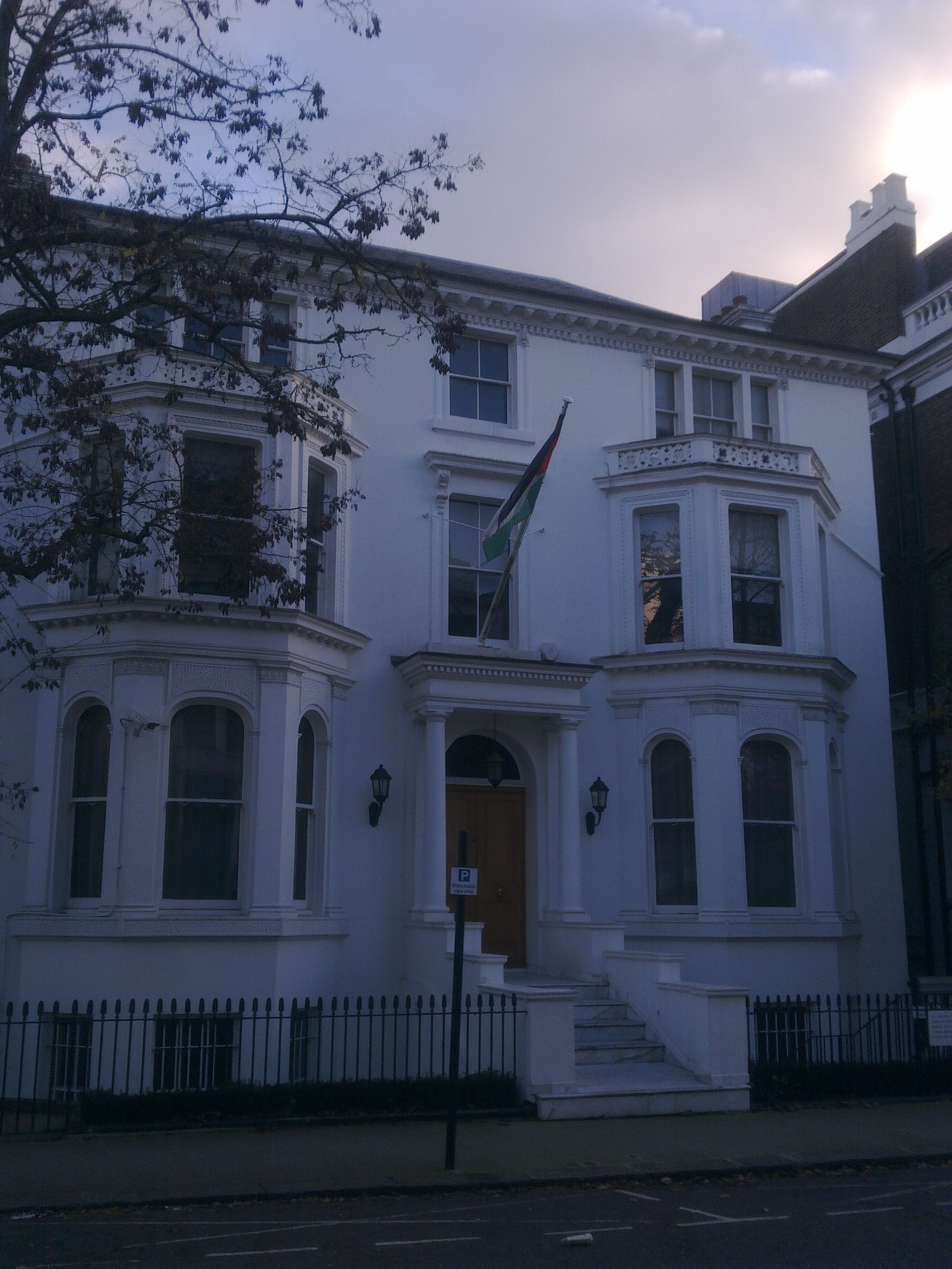 Embassy of Jordan in London